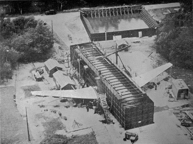 Comet G-ALYU in the 200,000 gallon Water Tank for Pressure Tests at RAE Farnborough